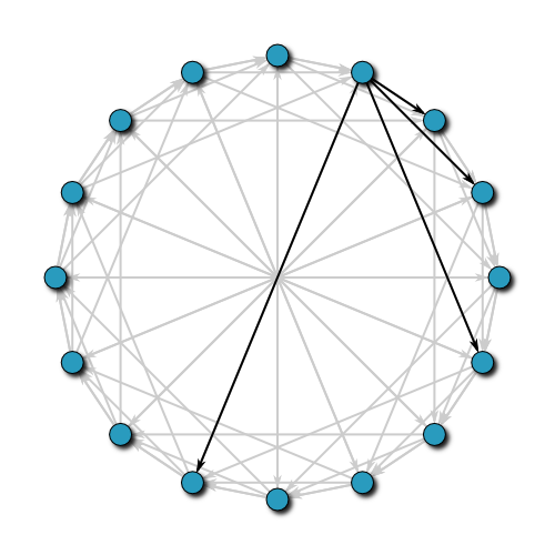 A 16-node Chord network. For a network of this size, each node has "fingers" at distances of 1, 2, 4, and 8 along the ring. This allows efficient message routing.